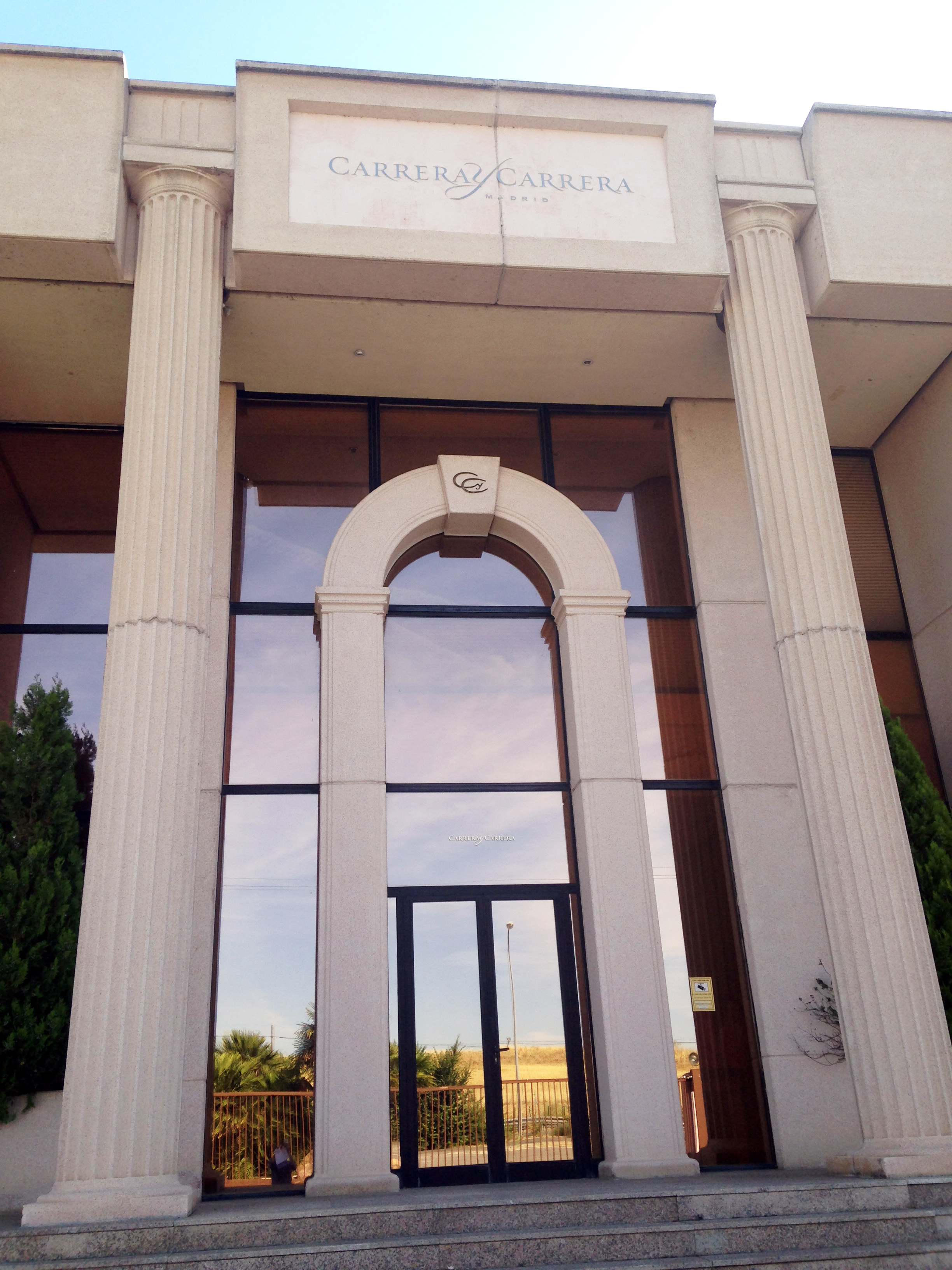 Headquarters of Carrera y Carrera, luxury brand, in Madrid, Spain.